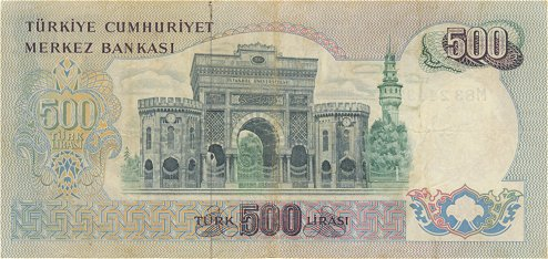 500 TL